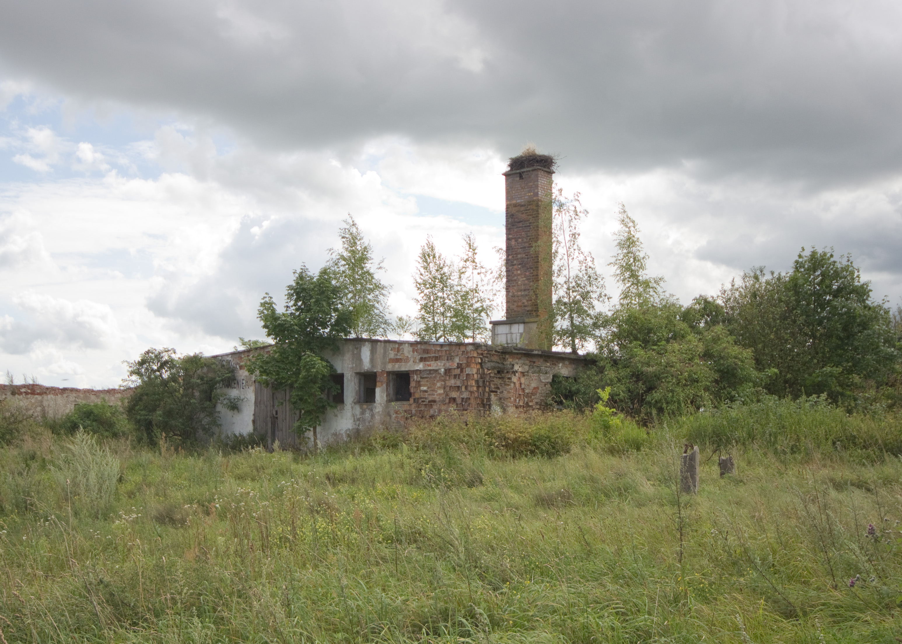 Manor house, Stachowizna, gmina Kętrzyn, powiat kętrzyński, Warmian-Masurian Voivodeship